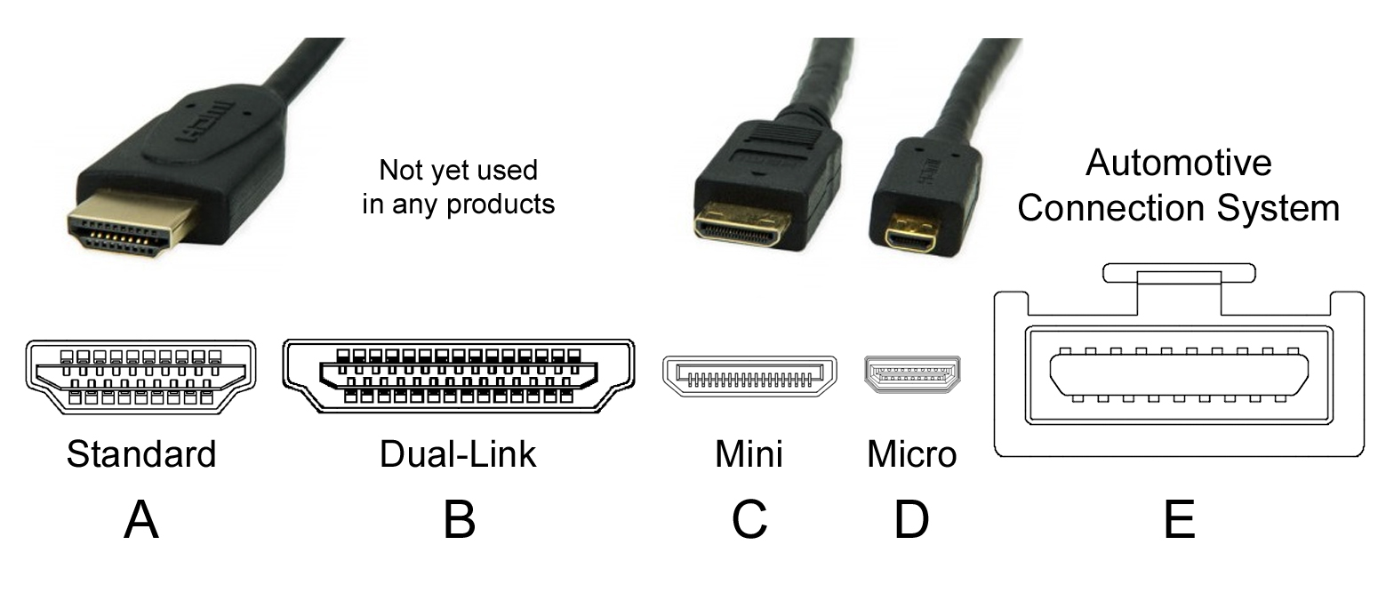 connector types for HDMI